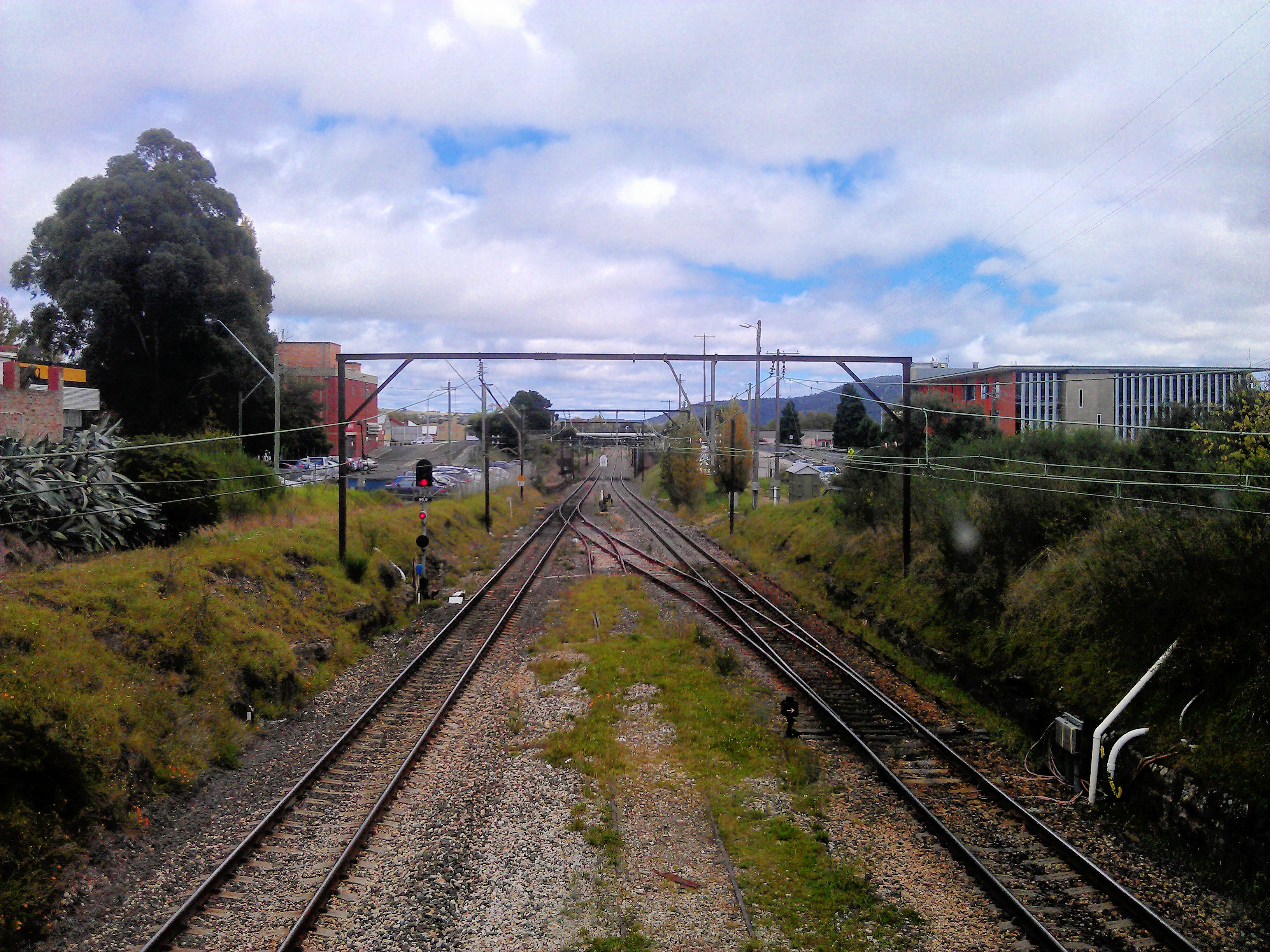 Blue Mountains Line north of Lithgow station